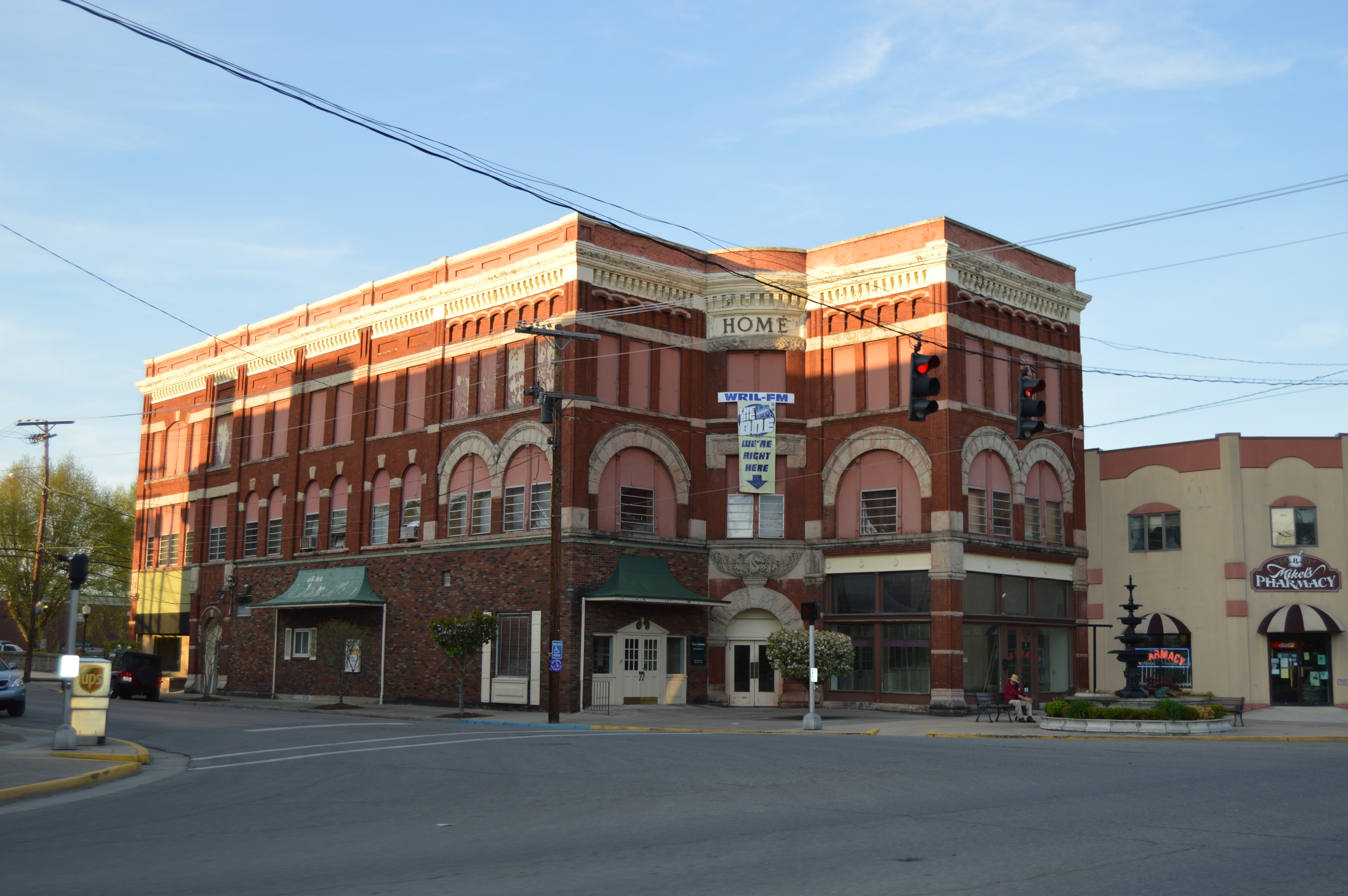 Comprehensive view of the People's Bank Building (now WRIL offices), located on the northeastern corner of the junction of Cumberland Avenue (Kentucky Route 74) and 20th Street (Kentucky Route 2403) on the central square of Middlesboro, Kentucky, United States. This intersection and surrounding neighborhoods are part of the Middlesboro Downtown Commercial District, a historic district that is listed on the National Register of Historic Places.